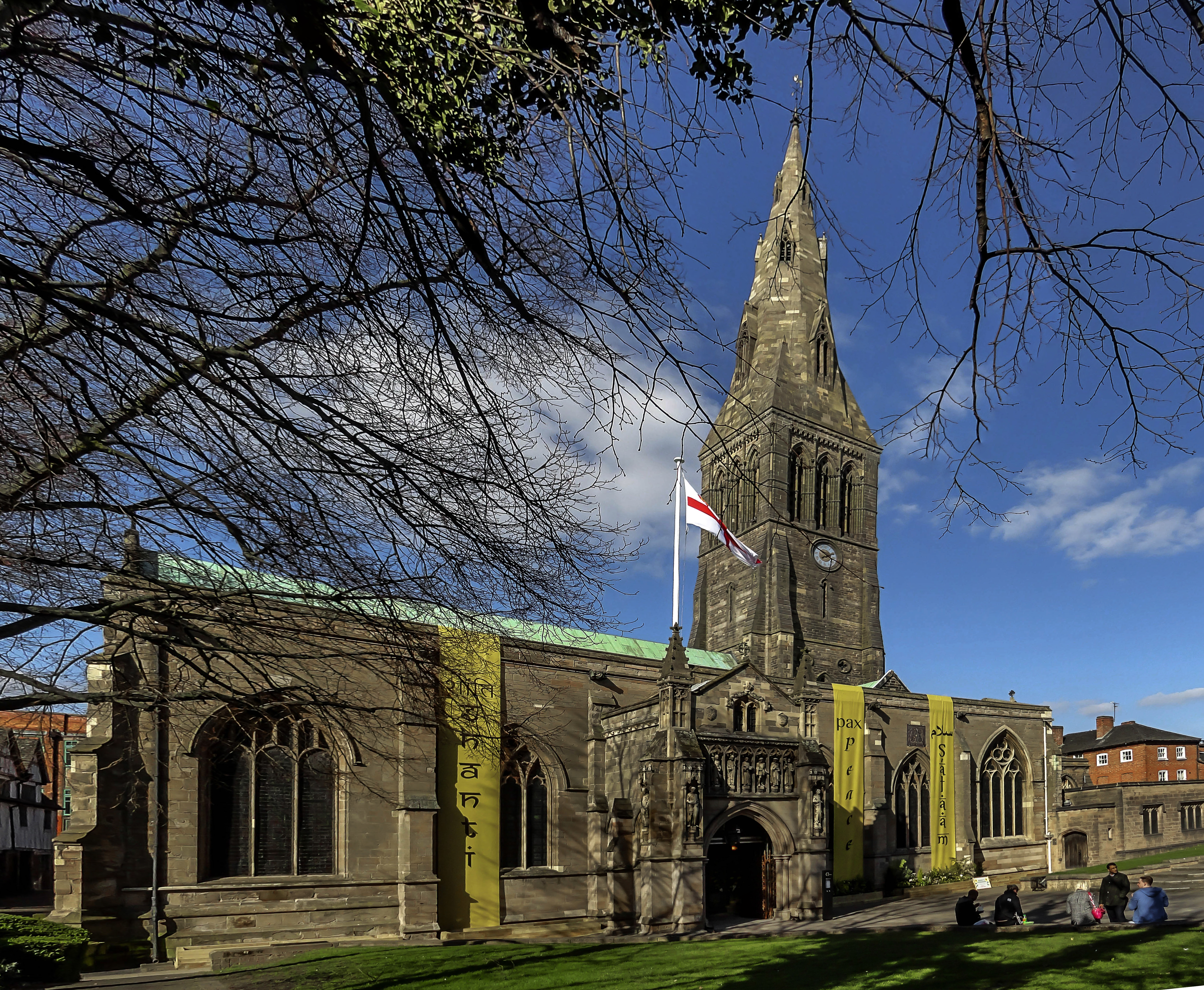 Exterior of Leicester Cathedral